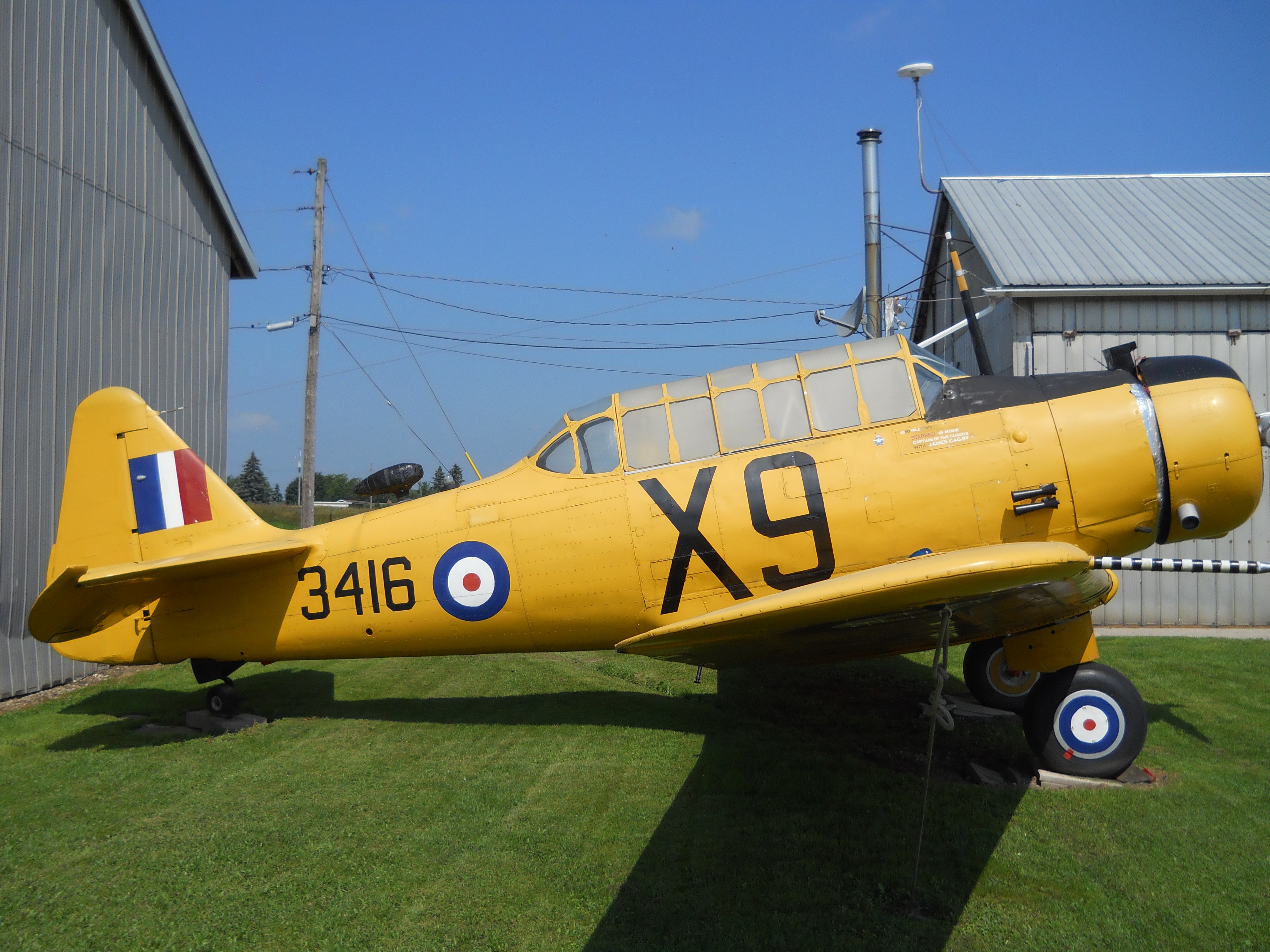 Royal Canadian Air Force Yale 3416 W/T at Guelph Airpark, Guelph, Ontario, Canada. Restored by T. Dietrich and B. Revell. This Yale is a Wireless Trainer (W/T). It served with the RCAF No. 4 Wireless School Flying Squadron and suffered a groundloop accident at St. Catharines on 29 May 1944.[1] This aircraft appeared in the 1942 Hollywood motion picture "Captains of the Clouds", starring James Cagney. Photo taken with permission of Tiger Boys Aircraft Works. In November 2013 this aircraft moved to No. 6 RCAF Museum, Dunnville, Ontario, Canada.[2]